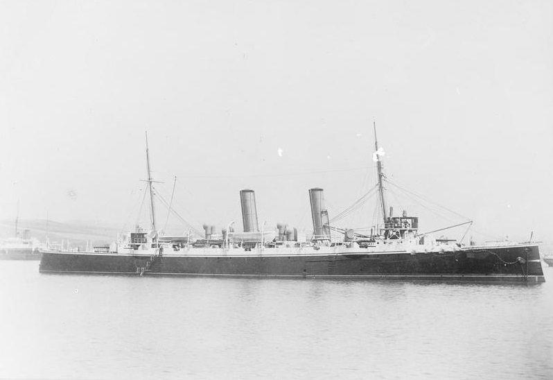 British Astraea class cruiser HMS FLORA